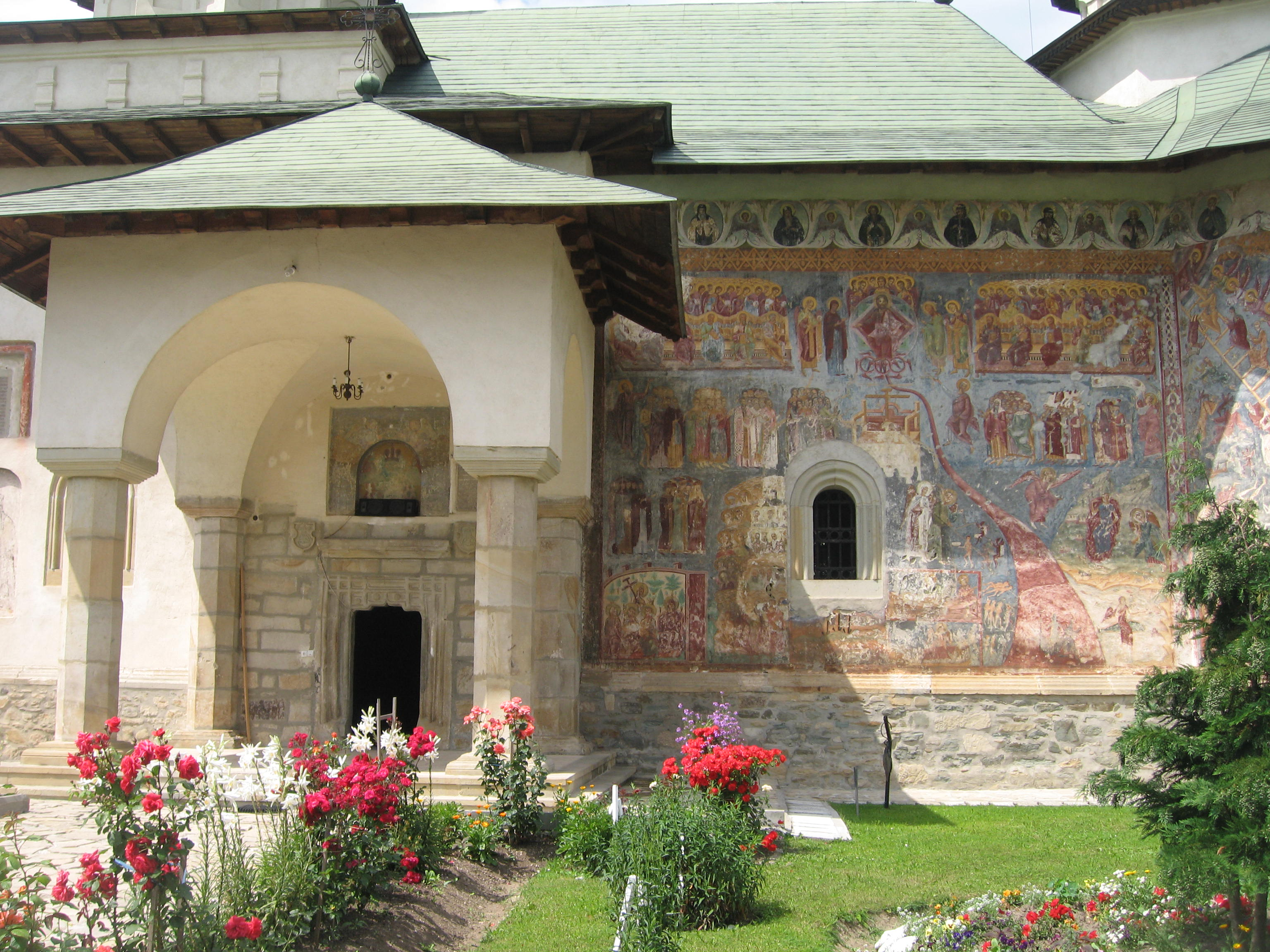 Râşca